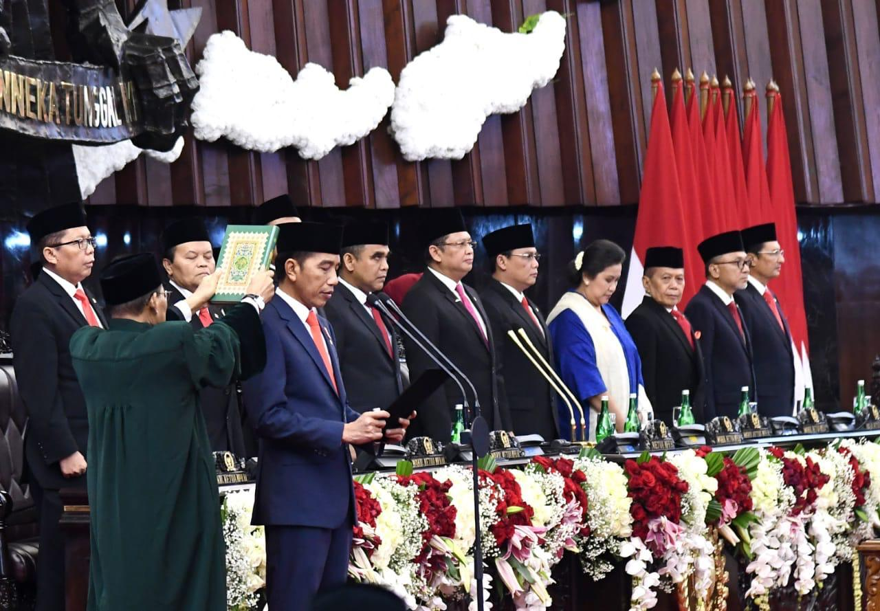 Joko Widodo being sworn into office for a second term